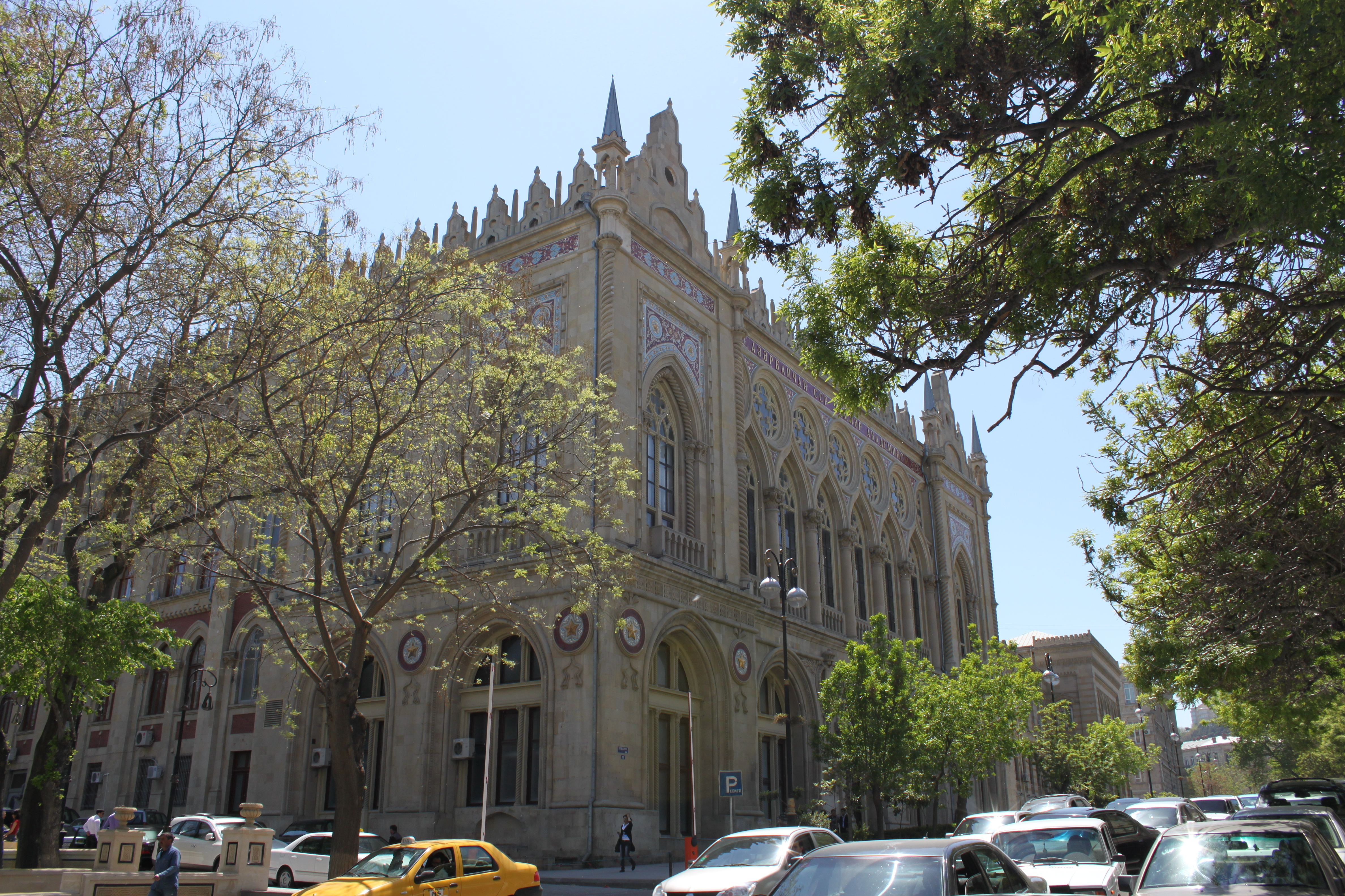 Istiqlaliyyat street in Baku